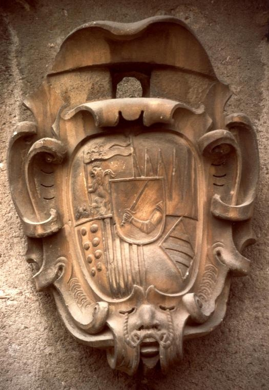 Coat of arms above the main entrance of the castle of Spadafora.